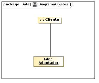 Diagrama de obxetos do patrón de deseño adaptador coa inplementación de obxeto adaptador.